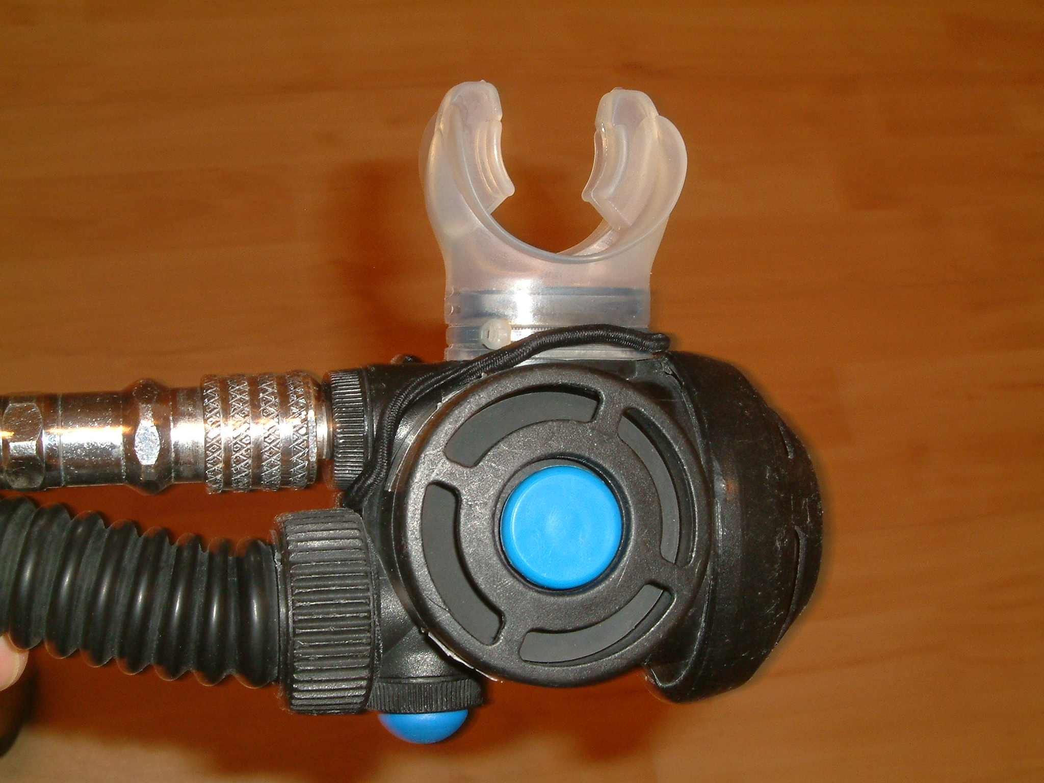 Diving regulator demand valve and bcd inflate - AP Valves Auto Air